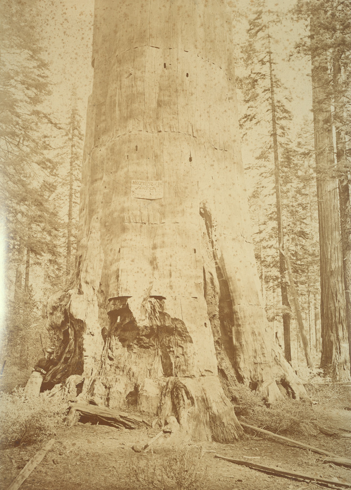 An album by Carleton E Watkins (1829-1916), one of the finest American landscape photographers of the nineteenth century.